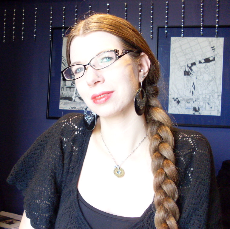 Liz Gorinsky (modeling her Zenni style 5903 eyeglasses).